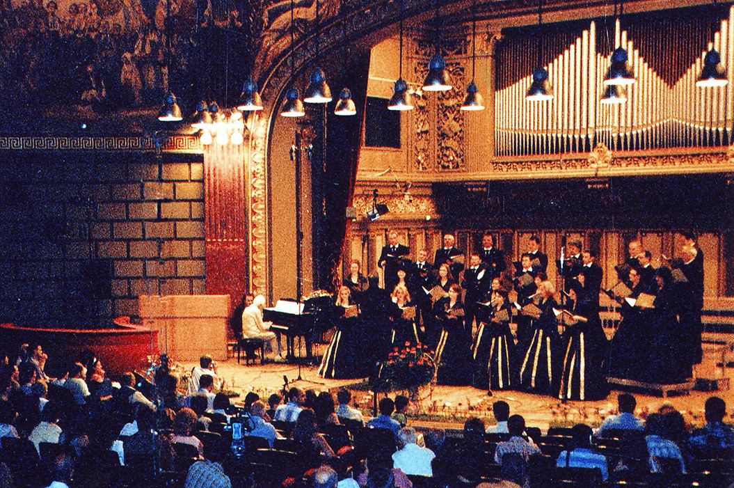 La pian, cu "Corala Diaconescu"